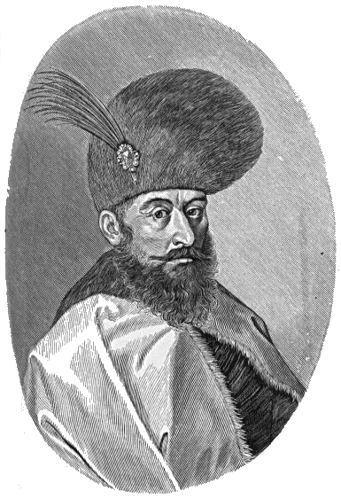 Portrait of Michael the Brave (1558-1601), prince of Wallachia, Transylvania and Moldavia made by Aegidius Sadeler II.